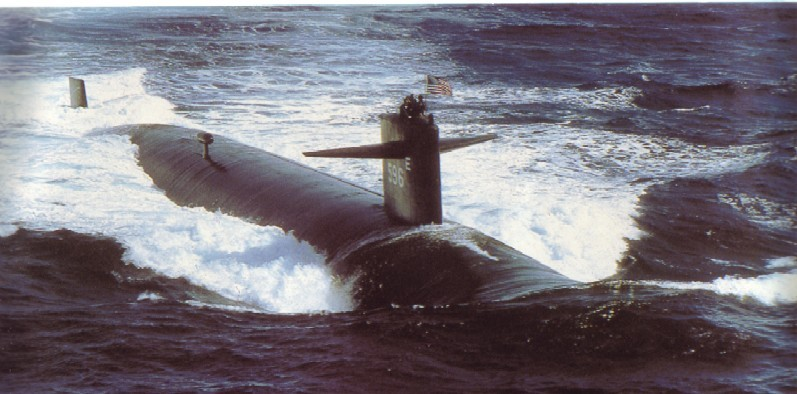 United States Navy submarine